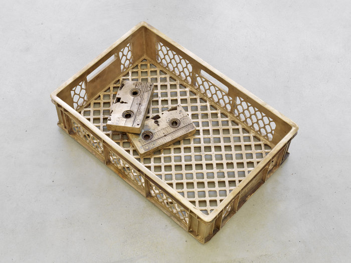 Bronze, 15 x 57,5 x 38 cm